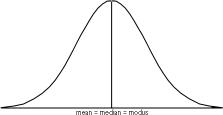 Normal Graph of mean modus and median